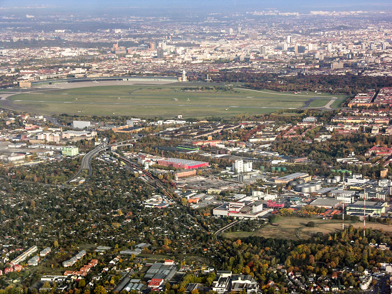 Southern approach to Berlin-Tempelhof